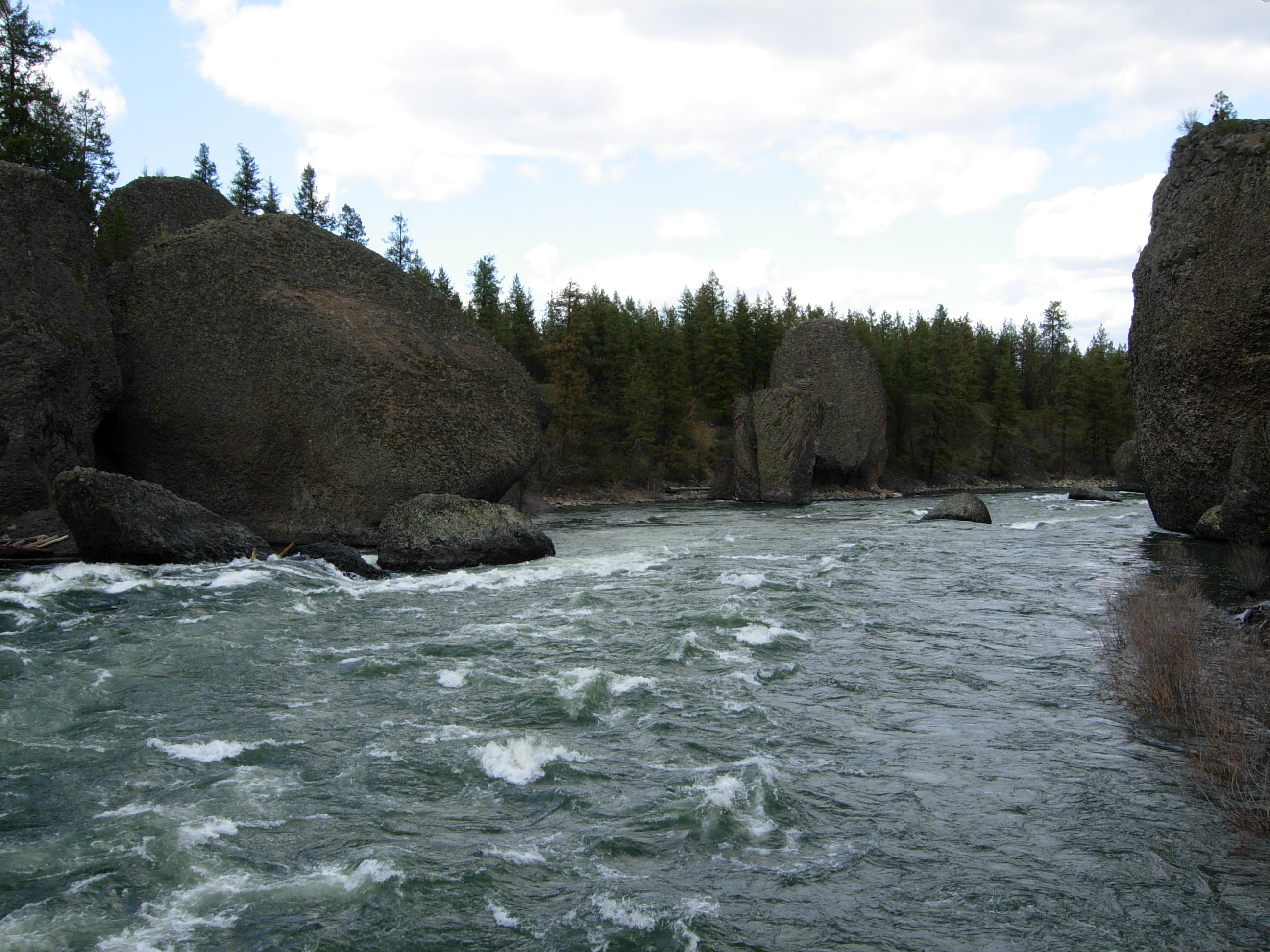 The Spokane River at Riverside State Park, Spokane, Washington